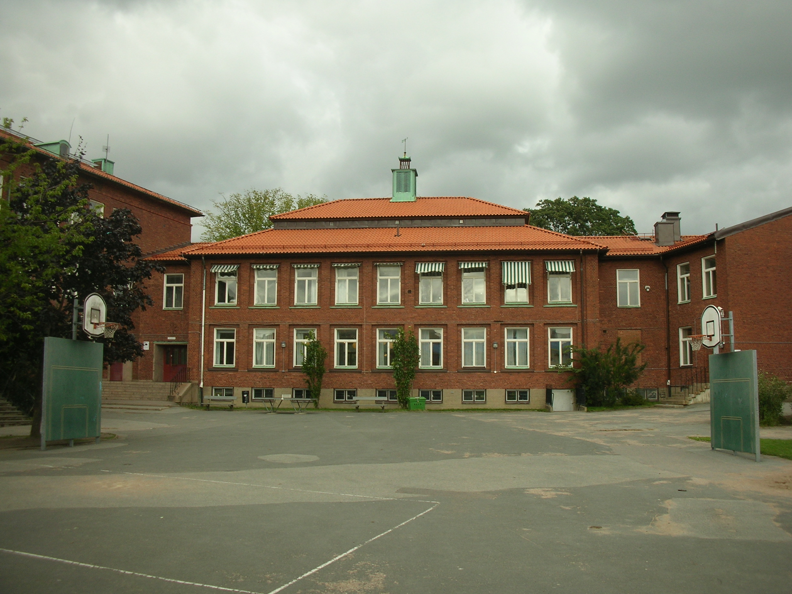 The newer part of the school Gamlestadsskolan in Gothenburg